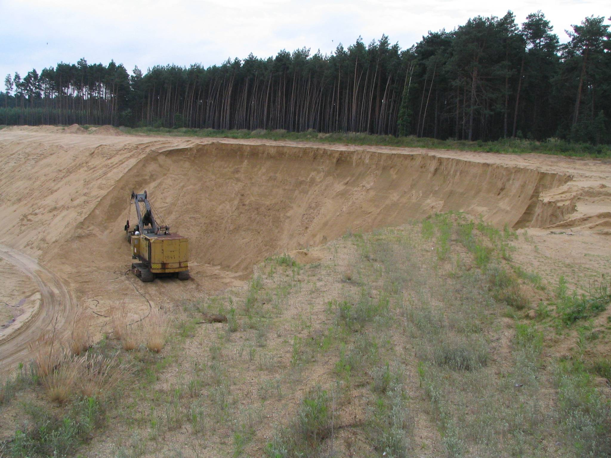 Váté písky - sandpit